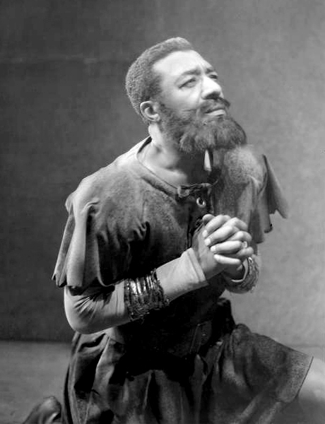 Photograph of Daniel Leo Haynes as Ferrovius in the Federal Theatre Project production of Androcles and the Lion at the Lafayette Theatre